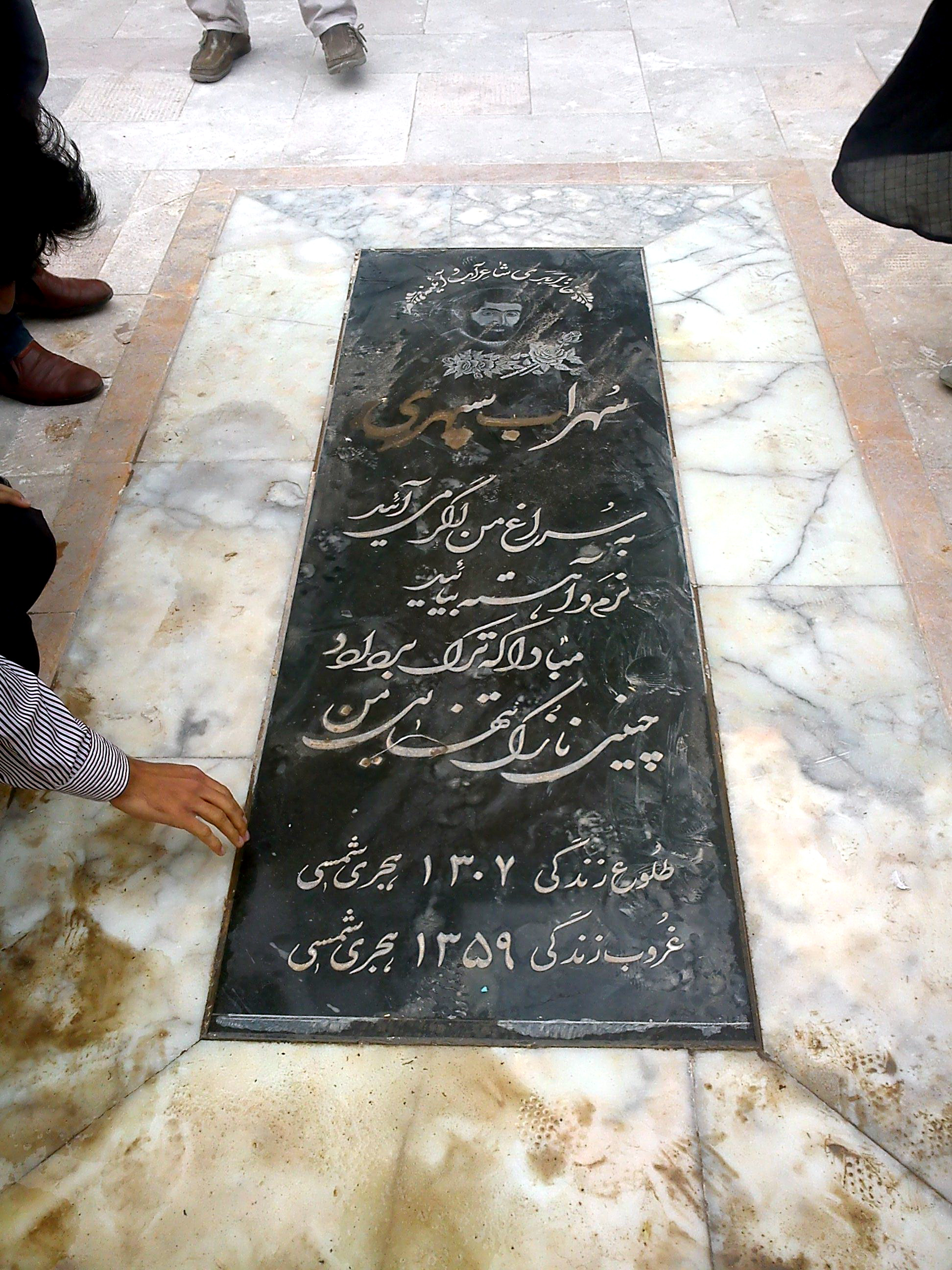 Gravestone of Sohrab Sepehri - Kashan